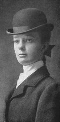 A young white woman wearing equestrian gear, including hat and tailored jacket.